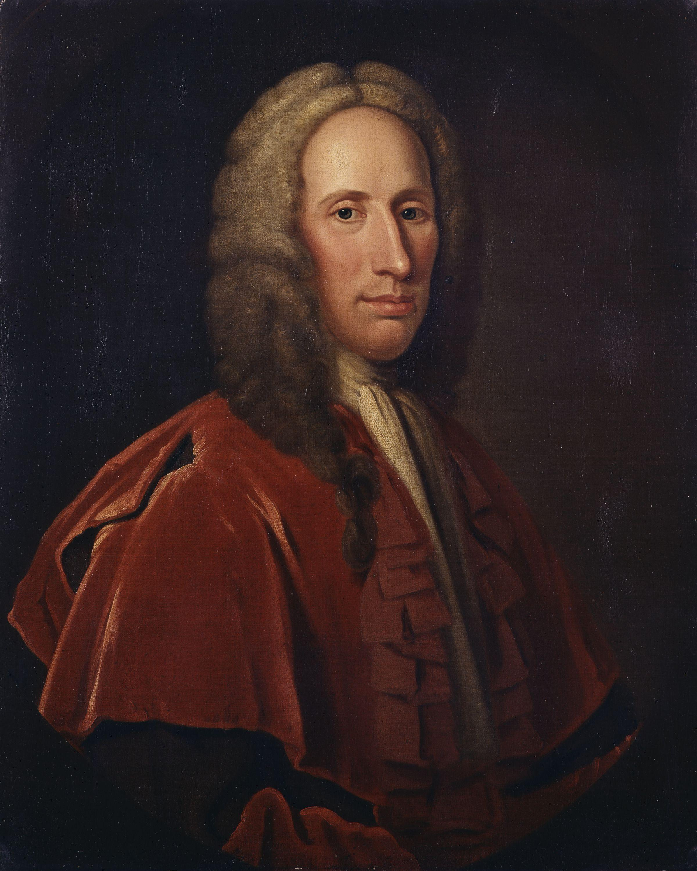 Portrait of Duncan Forbes of Culloden (1685-1747)